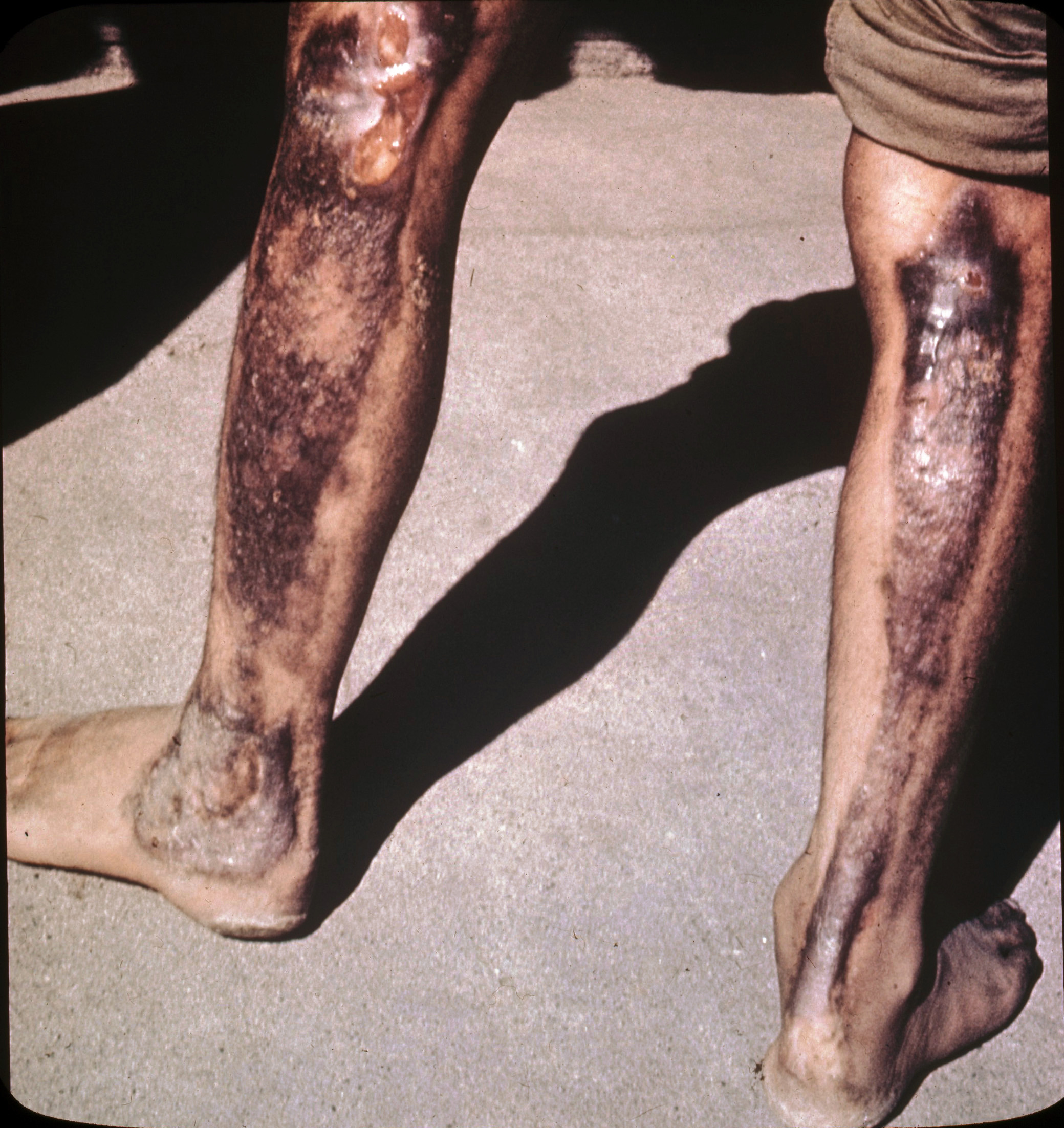 Yoshioka, Hiroshima patients - burns due to atomic radiation of legs ; A-Bomb